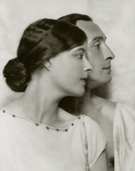 Photo of actors Elsie Mackay and Lionel Atwill, photographed to publicize The White-Faced Fool